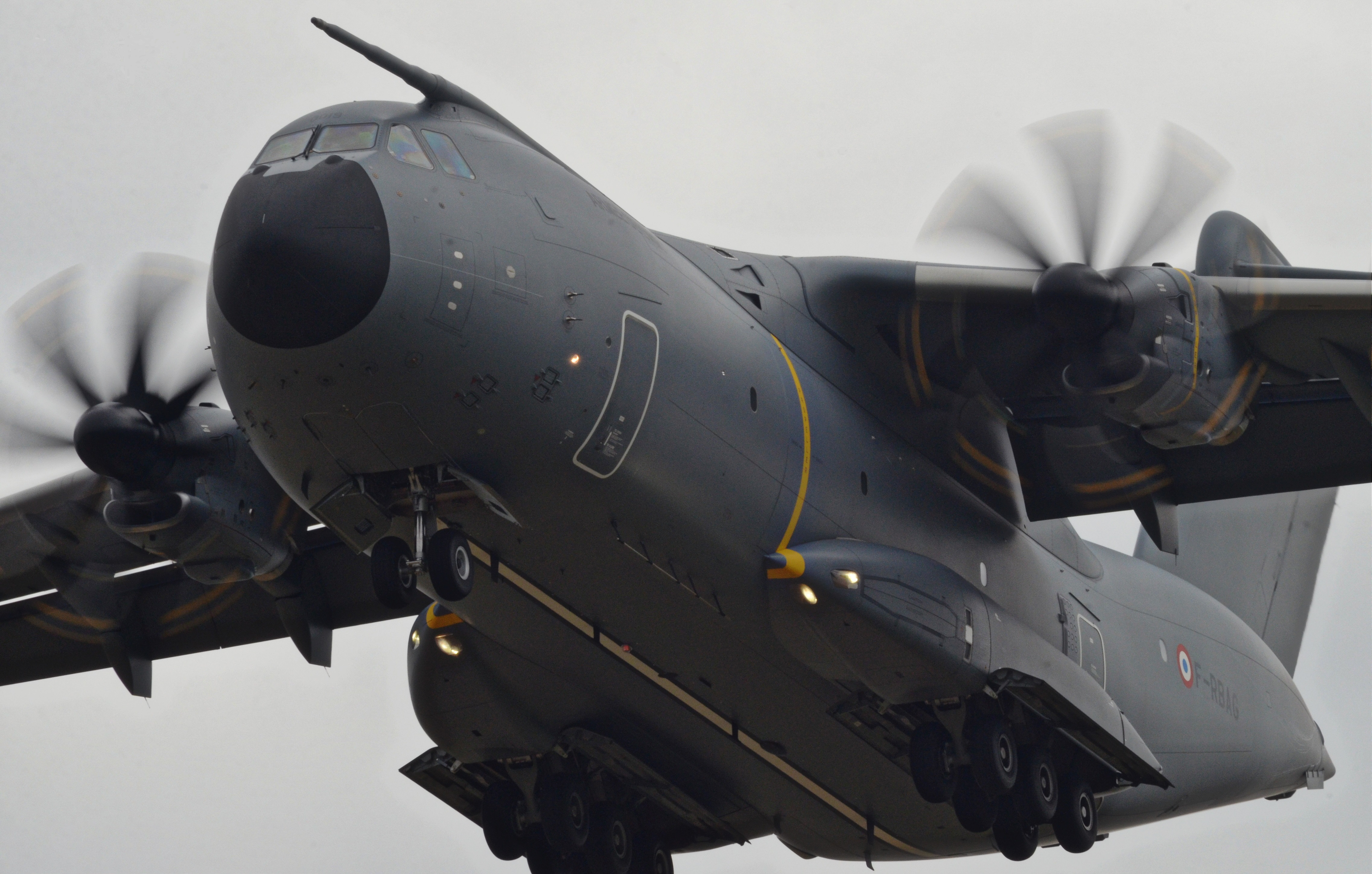 Airbus A400M French Air Force F-RBAG